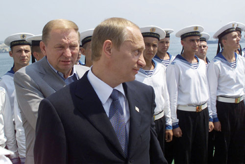 SEVASTOPOL. President Putin with Ukrainian President Leonid Kuchma on board the Hetman Sagaidachny patrol vessel, the flagship of the Ukrainian Navy.